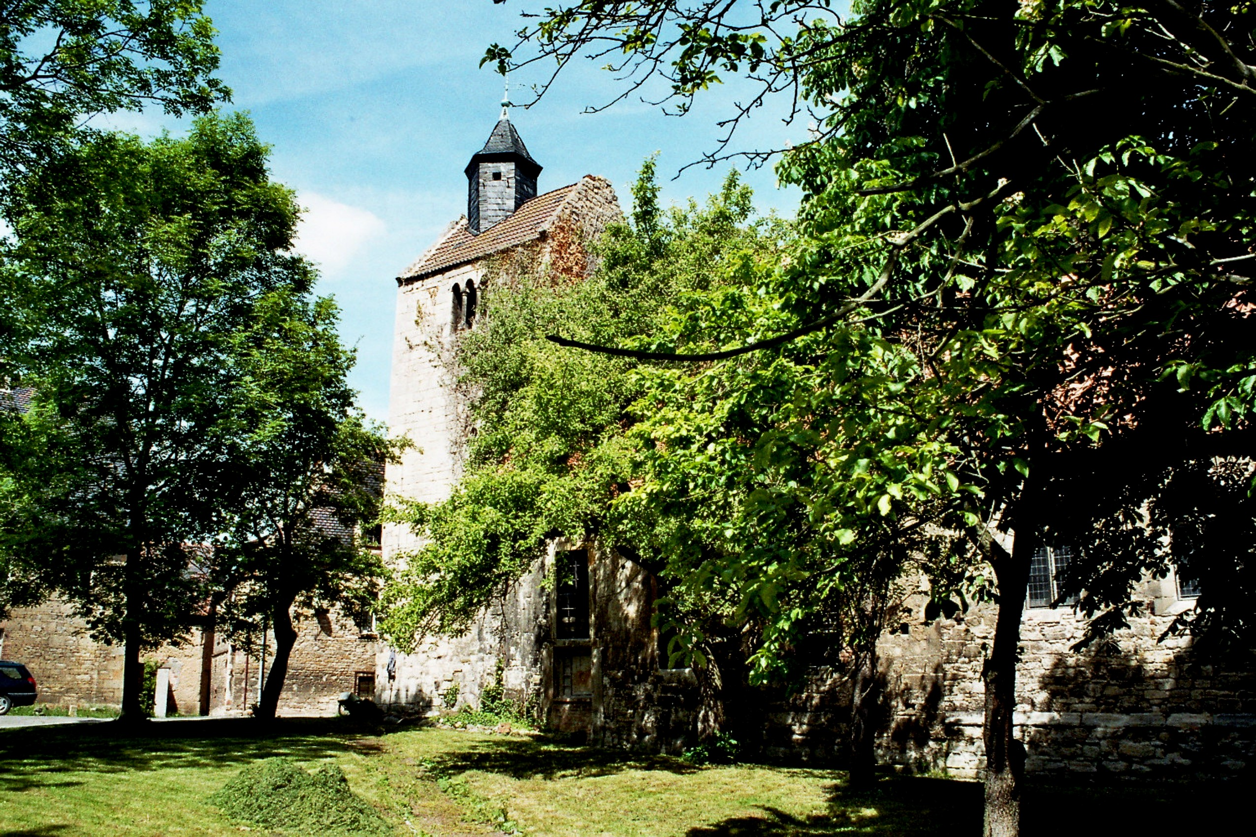 Alberstedt (Farnstädt), the Saints Peter and Paul church